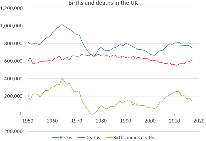 Births and deaths in the UK from 1950 to 2017 error: The opening tag is malformed or has a bad name